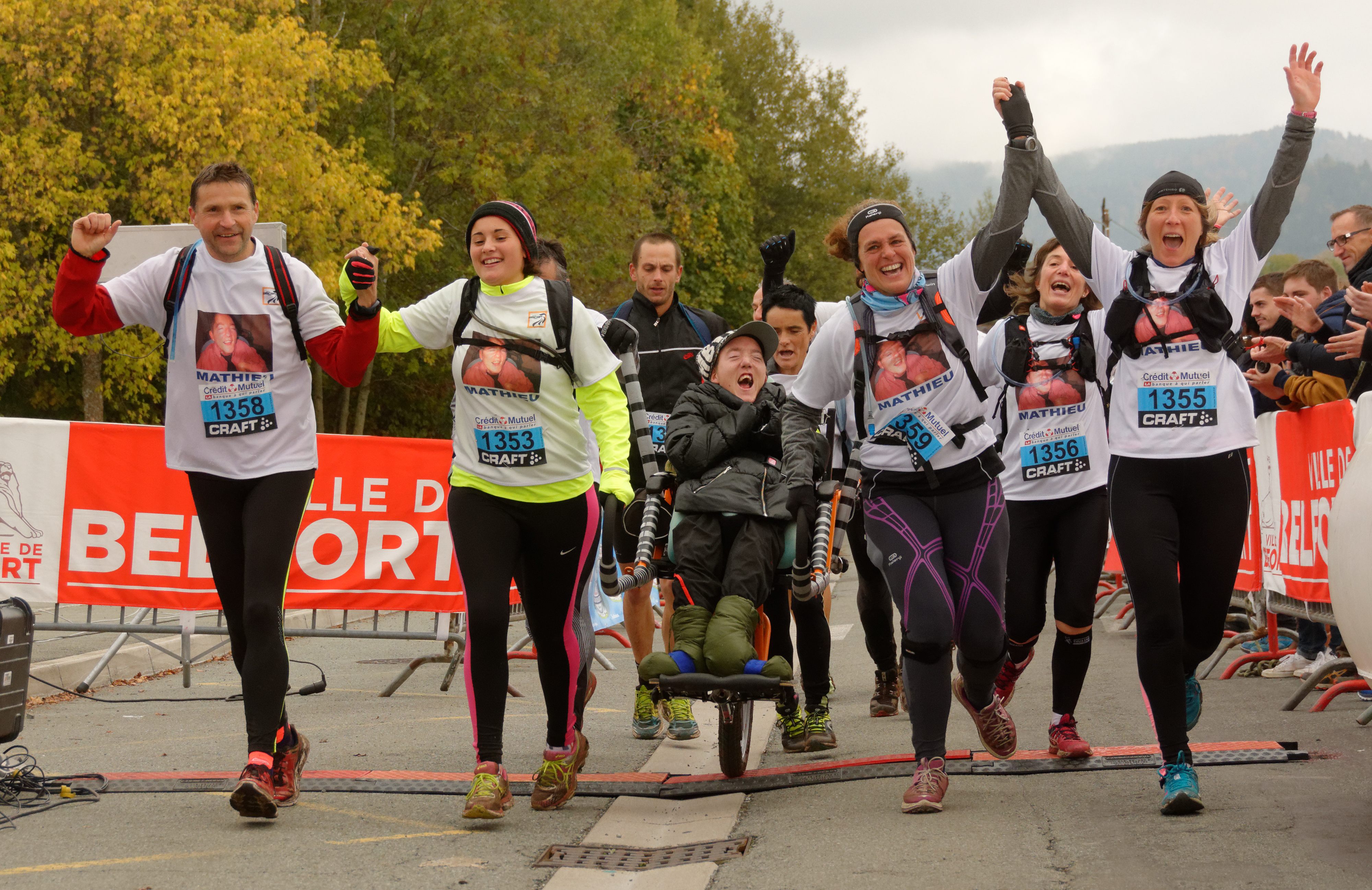 Personality rights warningAlthough this work is freely licensed or in the public domain, the person(s) shown may have rights that legally restrict certain re-uses unless those depicted consent to such uses. In these cases, a model release or other evidence of consent could protect you from infringement claims.